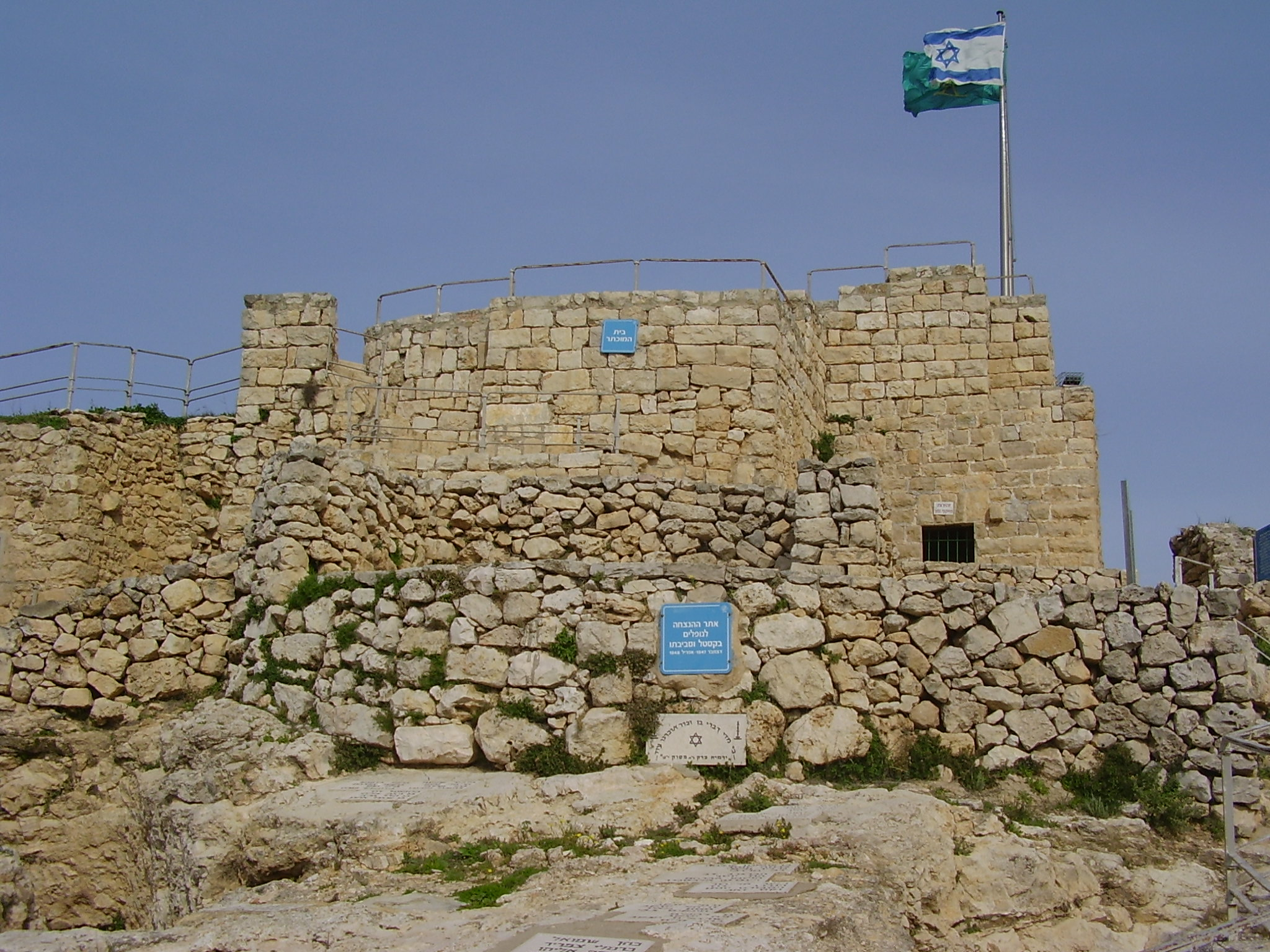 kastel national memorial site